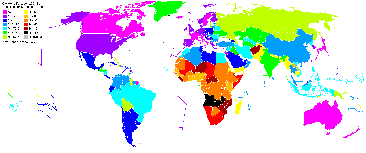 Life Expectancy at birth (years) over 80 77.5-80 75-77.5 72.5-75 70-72.5 67.5-70 65-67.5 60-65 55-60 50-55 45-50 40-45 under 40 not available Life expectancy at birth (years) world map including: 1) 191 United Nations member states (all except Montenegro) 2) Republic of China - Taiwan 3) Western Sahara territory 4) 27 non-sovereign entities marked with a white hyphen (-) or a black asterisk (*): - 23 dependent territories - Hong-Kong and Macau: Special Administrative Regions of the People's Republic of China. - Occupied Palestinian Territories: West Bank and Gaza Strip.